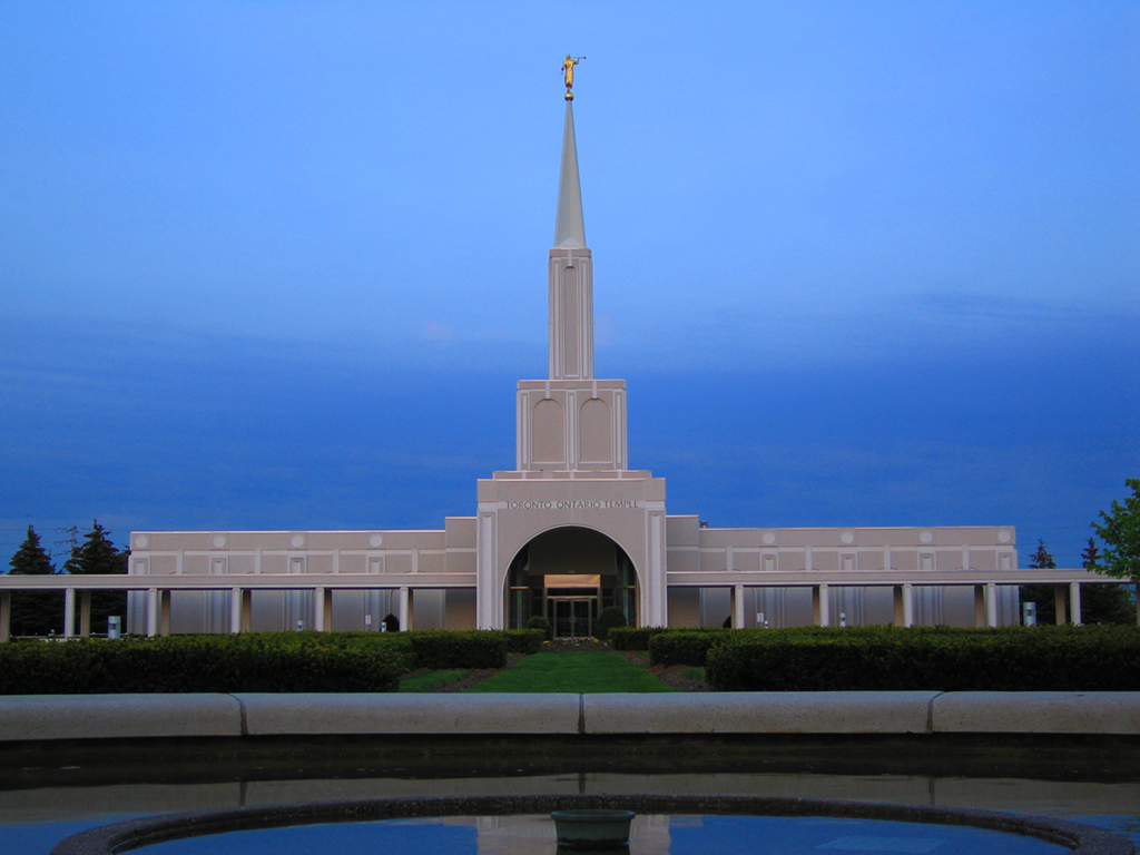 The Toronto Ontario Temple of The Church of Jesus Christ of Latter-day Saints, located in Brampton, Ontario, Canada.